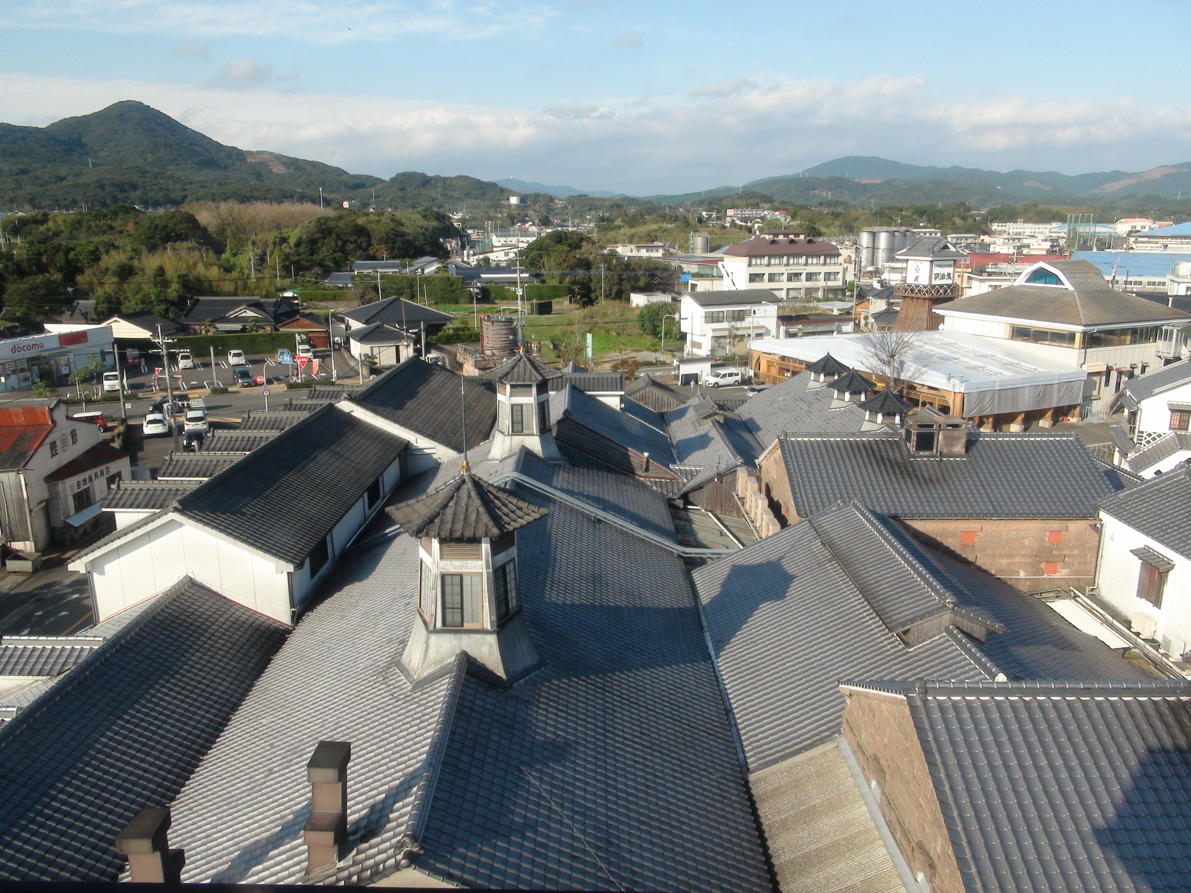 Satsuma Shuzo's Kedogawa Shochu factory, Makurazaki, Kagoshima